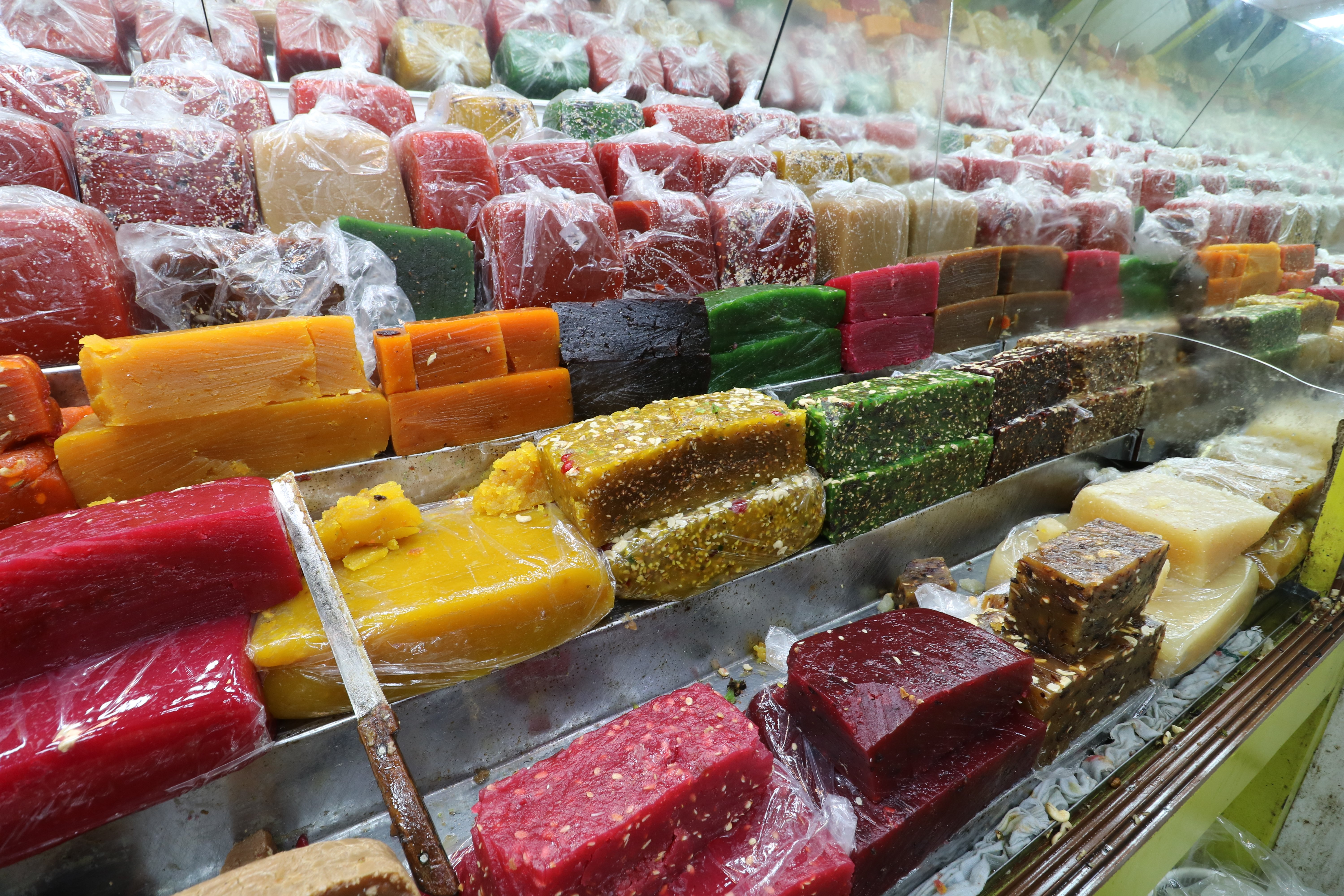 Halwa at Mitayi street Calicut